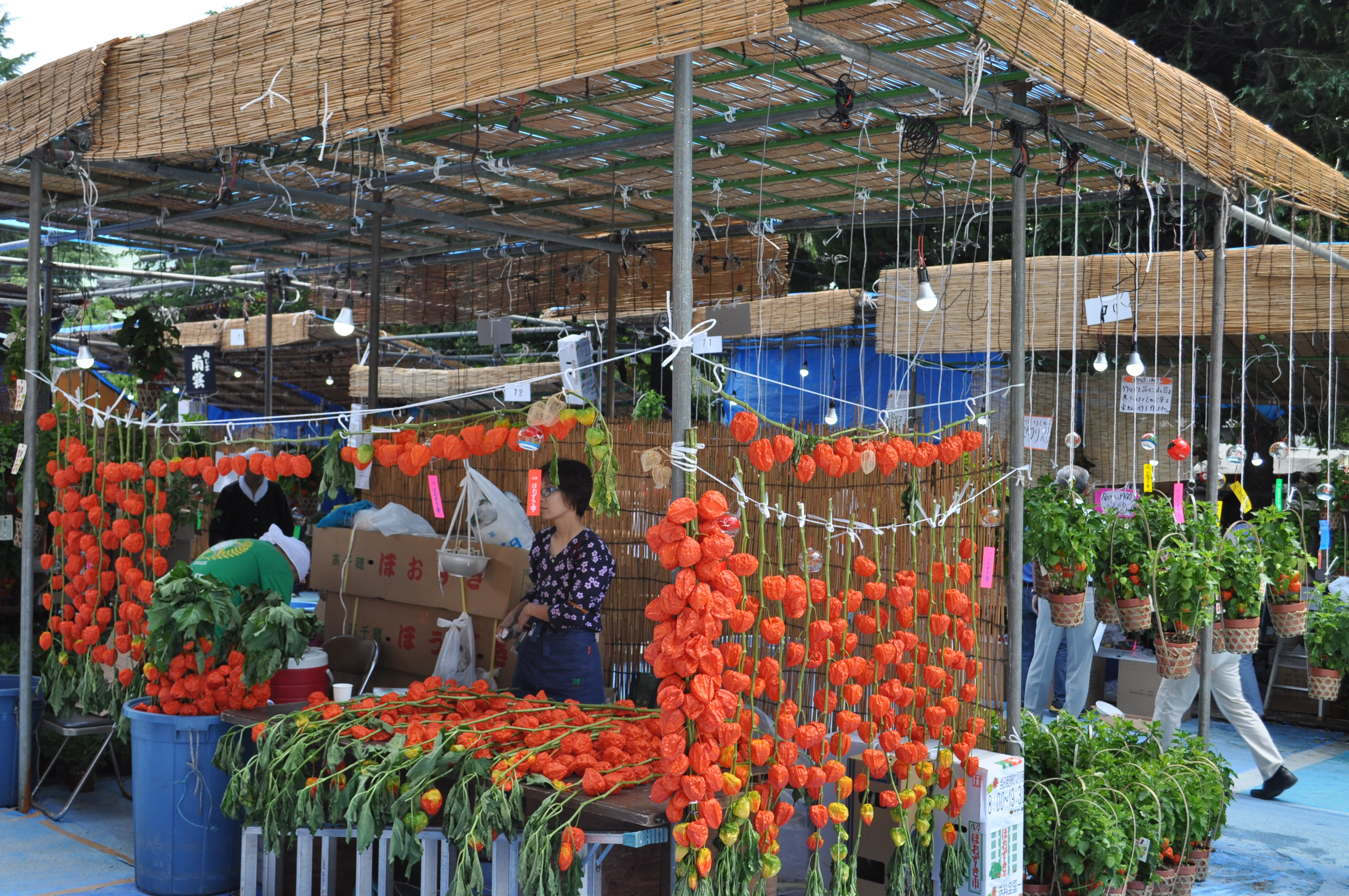 Hōzuki market in Asakusa Sensōji